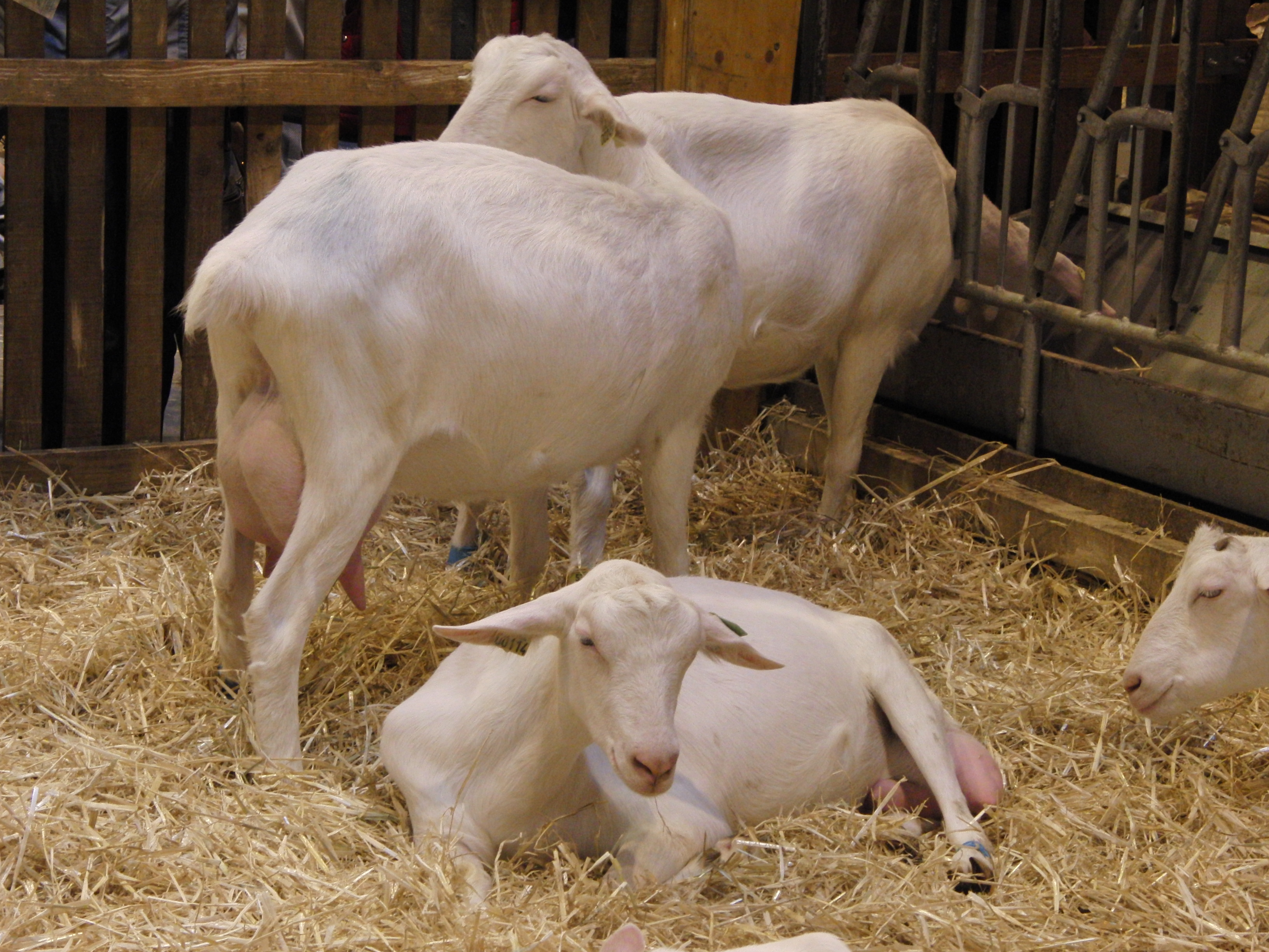 Saanen goats - Salon international de l'agriculture 2011, Paris, France